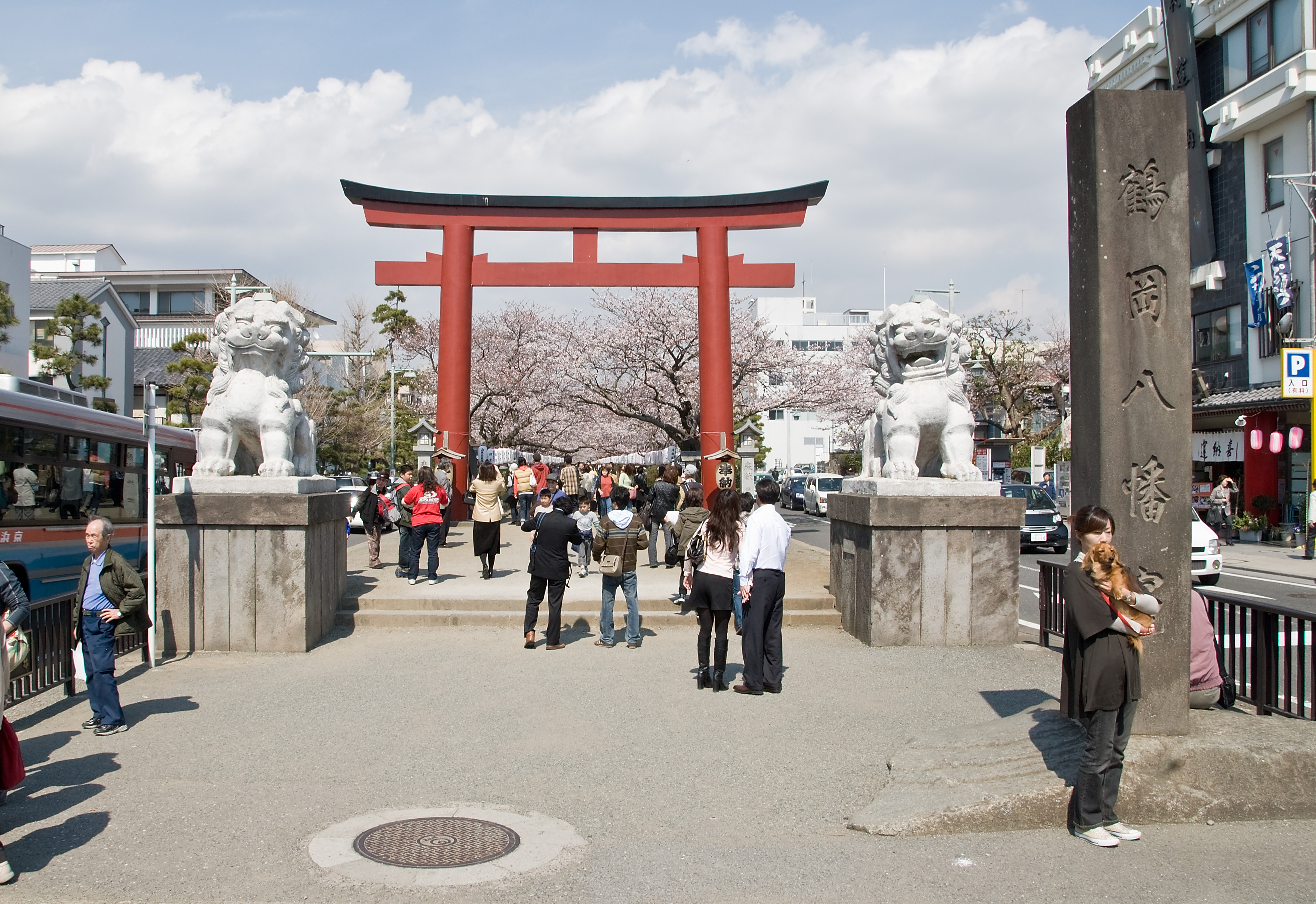 Cherry Blossoms at the Kamakura Matsuri